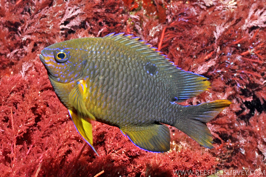 A Multispine Damsel, Neoglyphidodon polyacanthus, at Lord Howe Island, Tasman Sea, February 2010